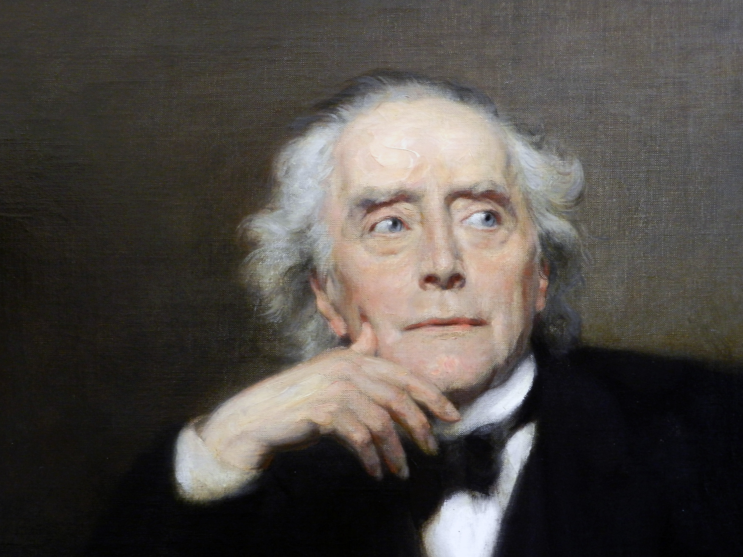 Max Koner, Portrait of the archeologist Ernst Curtius (1896) - Detail